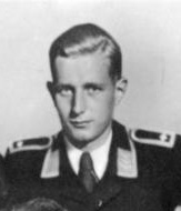 Harald Quandt, son of Günther Quandt and Magda (later Goebbels), from a family photo of the Goebbels family People in the image: Goebbels, Joseph: Reichsminister für Volksaufklärung und Propaganda, Gauleiter Berlin, Deutschland Factual corrections and alternative descriptions are encouraged separately from the original description. Additionally errors can be reported at this page to inform the Bundesarchiv. Original historic description